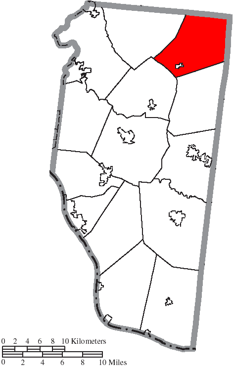 Map of the municipal and township boundaries of Clermont County, Ohio, United States, as of the 2000 census, with the location of Wayne Township highlighted. Township borders are shown only in unincorporated areas in order to differentiate incorporated and unincorporated areas more clearly.